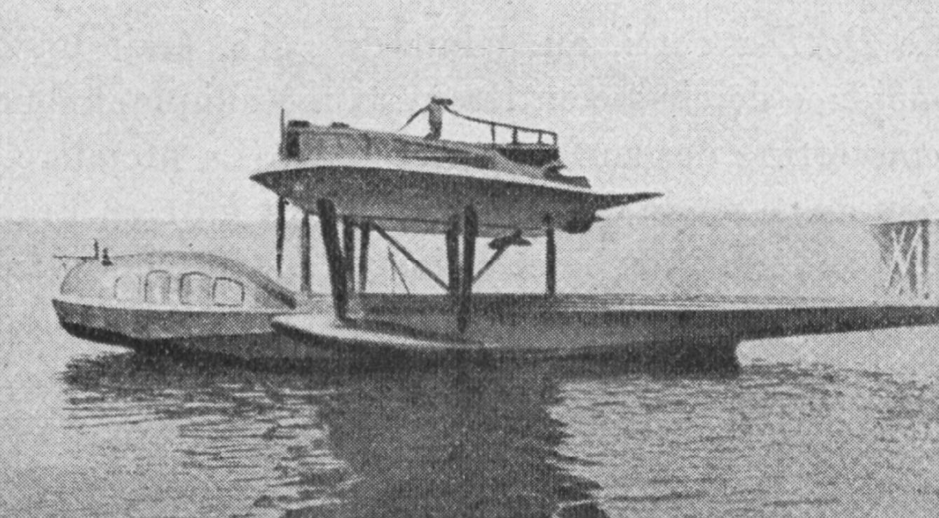 Dornier GS.I photo from L'Aéronautique June 1921